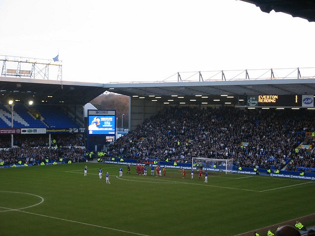 Everton about to score